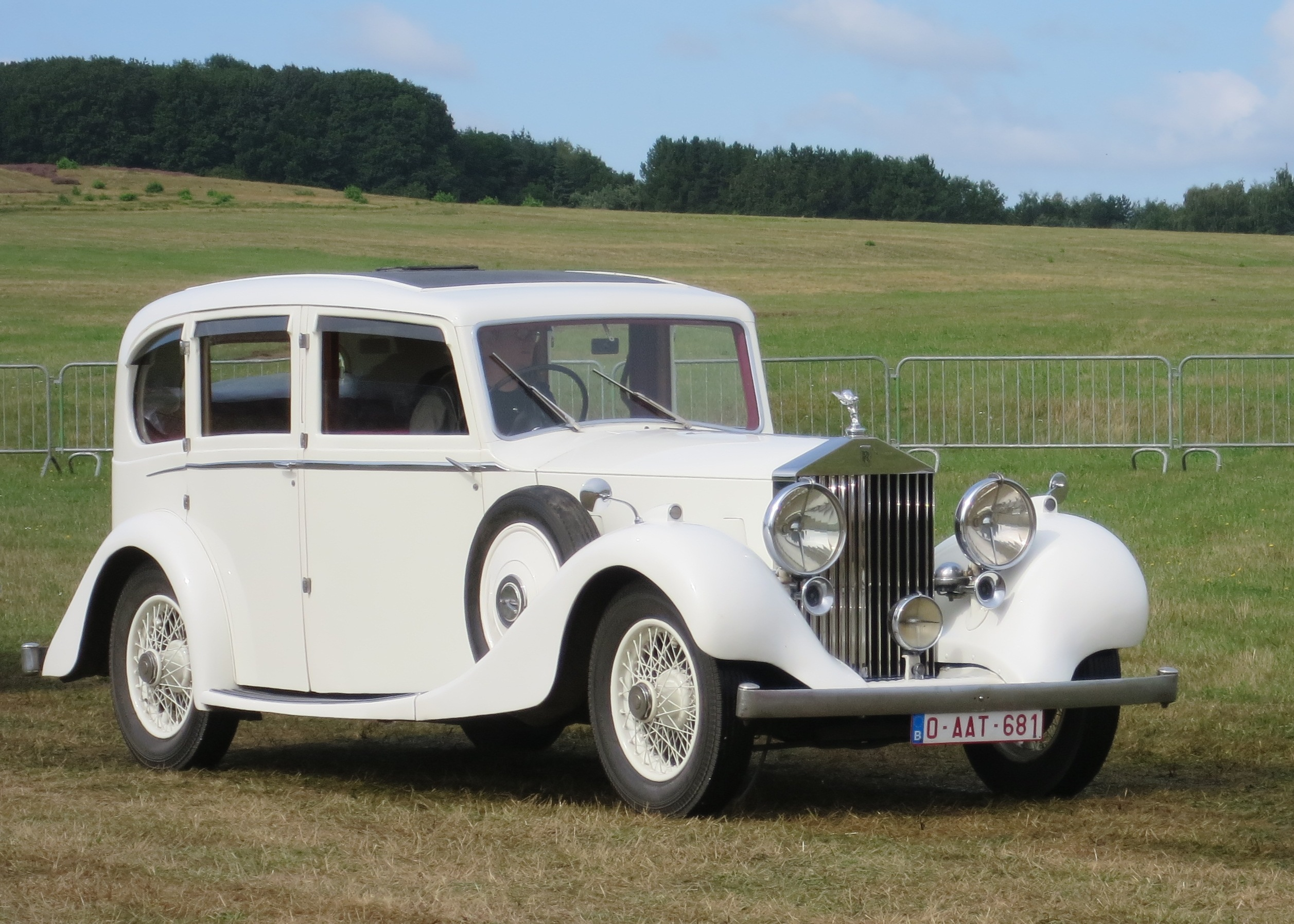 Rolls-Royce 25/30 sedan/saloon (1937) arriving Schaffen Diest